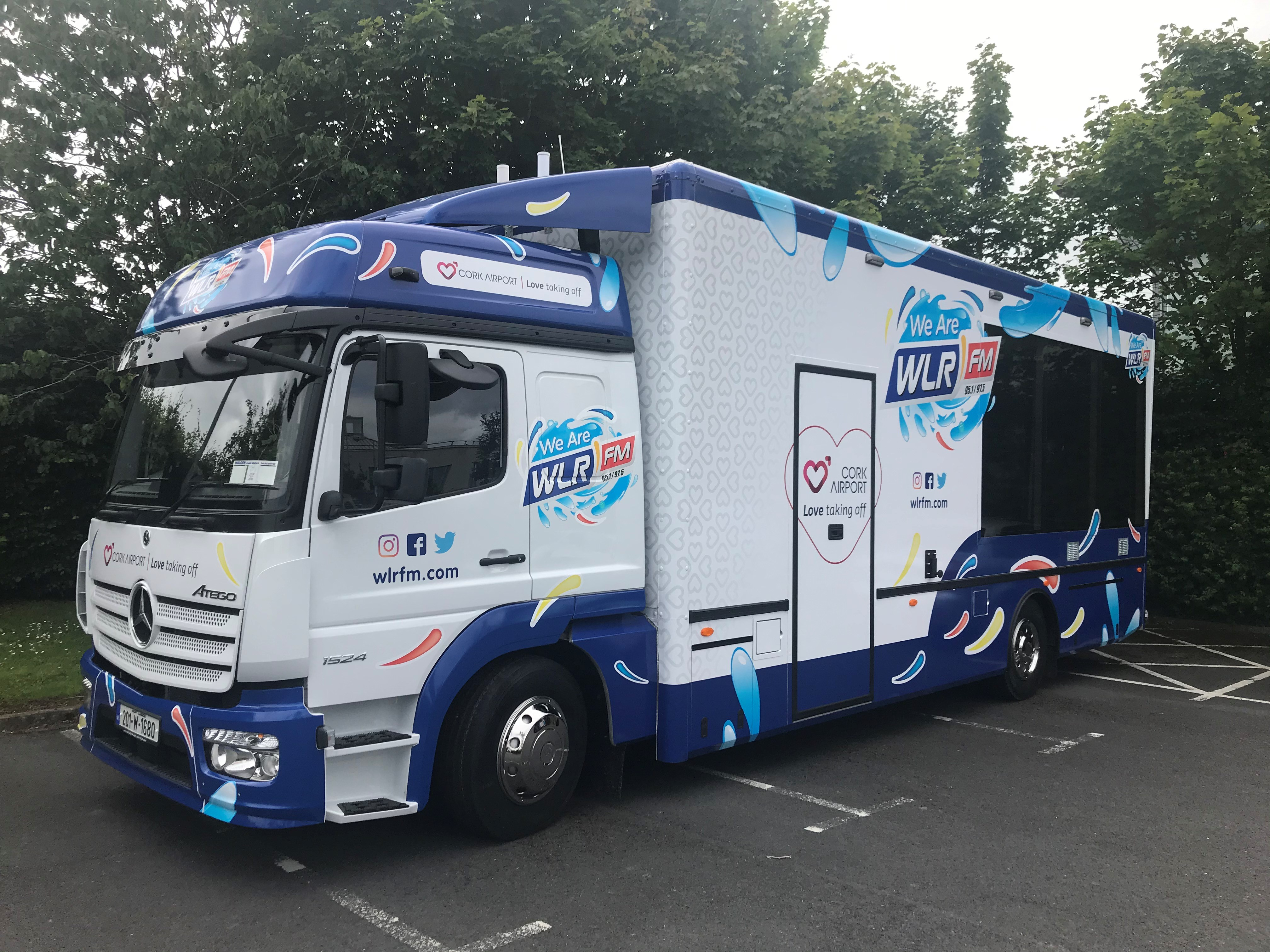 Outside Broadcast Unit 2020